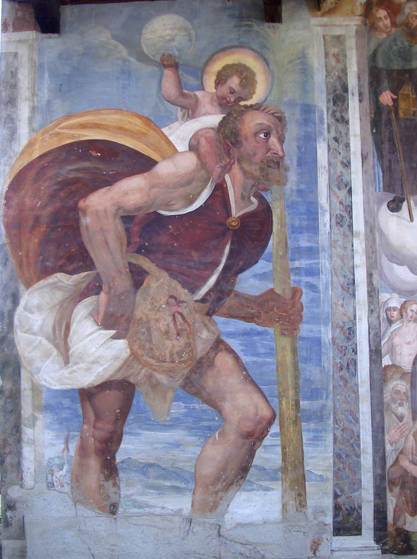 Melchiorre d'Enrico, Saint Christopher, fresco, 1596-97, facade of the San Michele parish church, Riva Valdobbia, Vercelli, Italy.